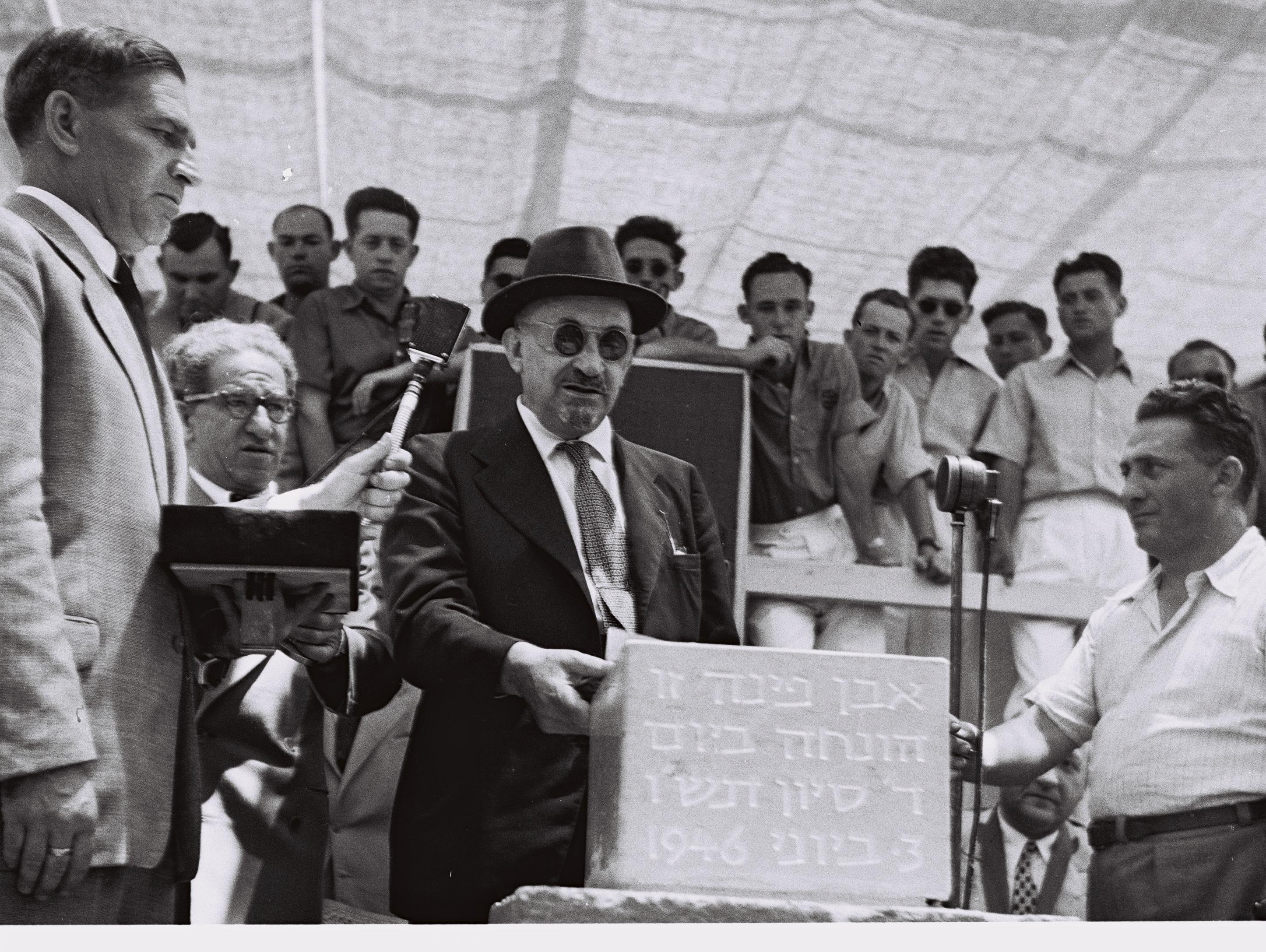 PROF. CHAIM WEIZMANN WITH HIS SECRETARY MEIR WEISSGAL STANDING BEHIND HIM (L) TOUCHING THE EMBOSSED CORNERSTONE FOR THE WEIZMANN INSTITUTE IN REHOVOT. טקס הנחת אבן הפינה למכון ויצמן ברחובות. פרופסור חיים ויצמן מניח אבן פינה למכון ויצמן, ברחובות, מאחור מזכירו מאיר וייסגל.